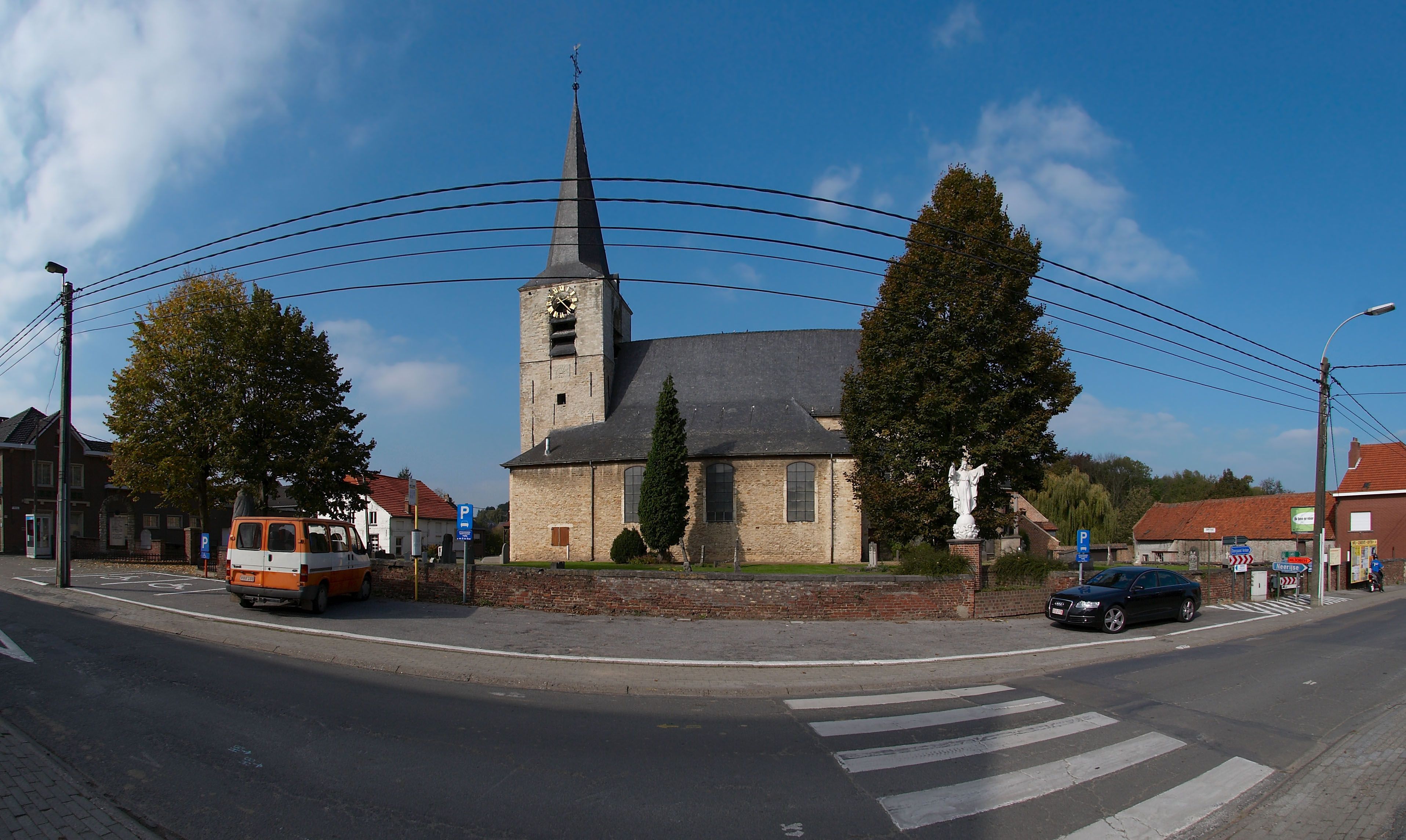 The Sint-Lambertuschurch in Leefdaal, Belgium, looking direction NW. The photo has been taken with a AF Fisheye Nikkor 10.5 mm lens. This explains certain distortions. Other photos: - OpenStreetMap(Info)